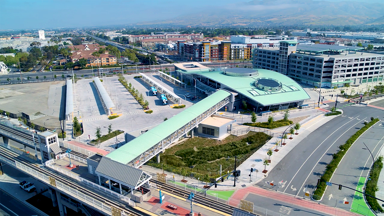 Screengrab from the agency's information video depicting an aerial view of the Milpitas Transit Center and its connections. In the background, Great Mall can be seen on the upper left, BART tracks running north in the middle, and the East Foothills on the right.